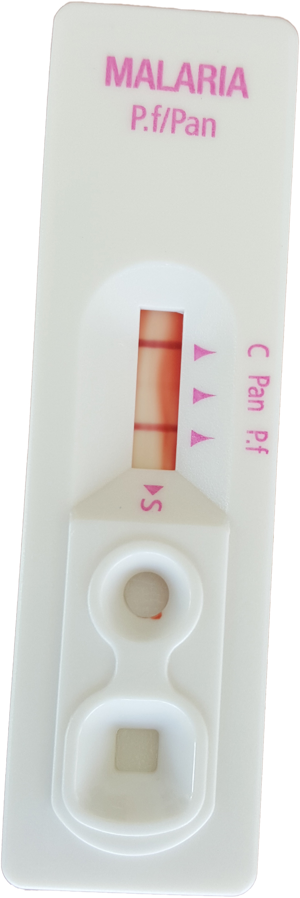 Rapid detection test for antibodies against various forms of malaria. The red line under "C" indicates a valid test while the line under "Pf" indicates the presence of antibodies against plasmodium falsiparum, which is a sign of an ongoing infection or during the past month. The absence of line under "Pan" indicates an absence of antibodies against other forms of plasmodium.